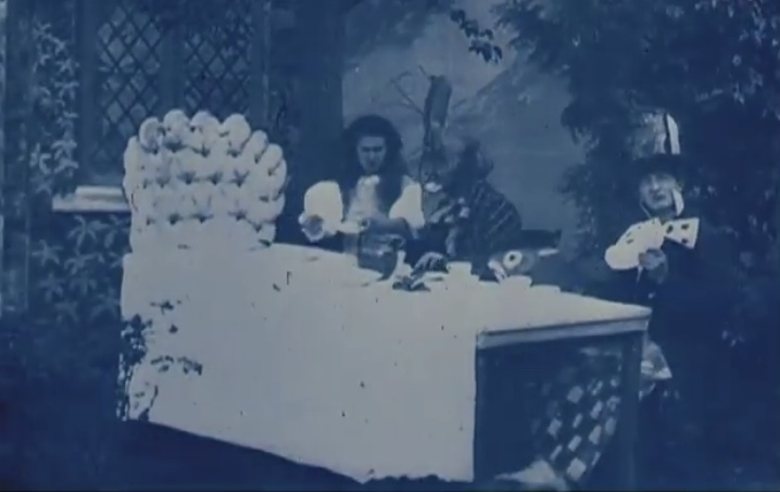 May Clark (1885-1971) and Norman Whitten (1881-1969) in Alice in Wonderland directed by Cecil Hepworth (1903)